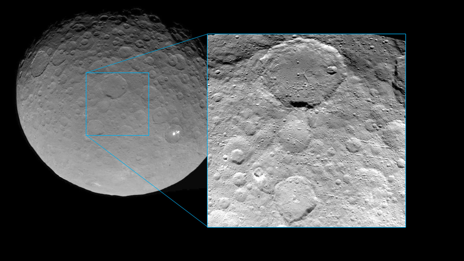 Dawn Spirals Closer to Ceres - EZINU Crater (top) and NAWISH Crater (bottom) - May 28, 2015 May 28, 2015 Dawn Spirals Closer to Ceres, Returns a New View Dawn View from OpNav9A new view of Ceres' surface shows finer details coming into view as NASA's Dawn spacecraft spirals down to increasingly lower orbits. A new view of Ceres, taken by NASA's Dawn spacecraft on May 23, shows finer detail is becoming visible on the dwarf planet. The spacecraft snapped the image at a distance of 3,200 miles (5,100 kilometers) with a resolution of 1,600 feet (480 meters) per pixel. The image is part of a sequence taken for navigational purposes.Image is available at: After transmitting these images to Earth on May 23, Dawn resumed ion-thrusting toward its second mapping orbit. On June 3, Dawn will enter this orbit and spend the rest of the month observing Ceres from 2,700 miles (4,400 kilometers) above the surface. Each orbit during this time will be about three days, allowing the spacecraft to conduct an intensive study of Ceres.Dawn is the first mission to visit a dwarf planet, and the first to orbit two distinct solar system targets. It studied the protoplanet Vesta for 14 months in 2011 and 2012, and arrived at Ceres on March 6, 2015.